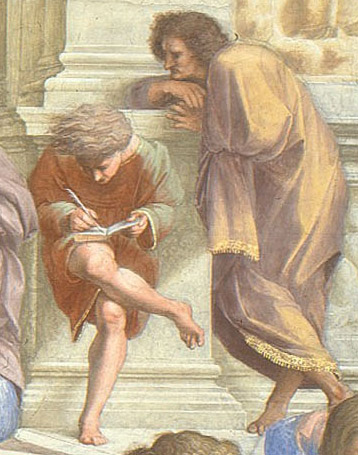 Part of School of Athens used for the artwork of Use Your Illusion albums by Guns N' Roses.